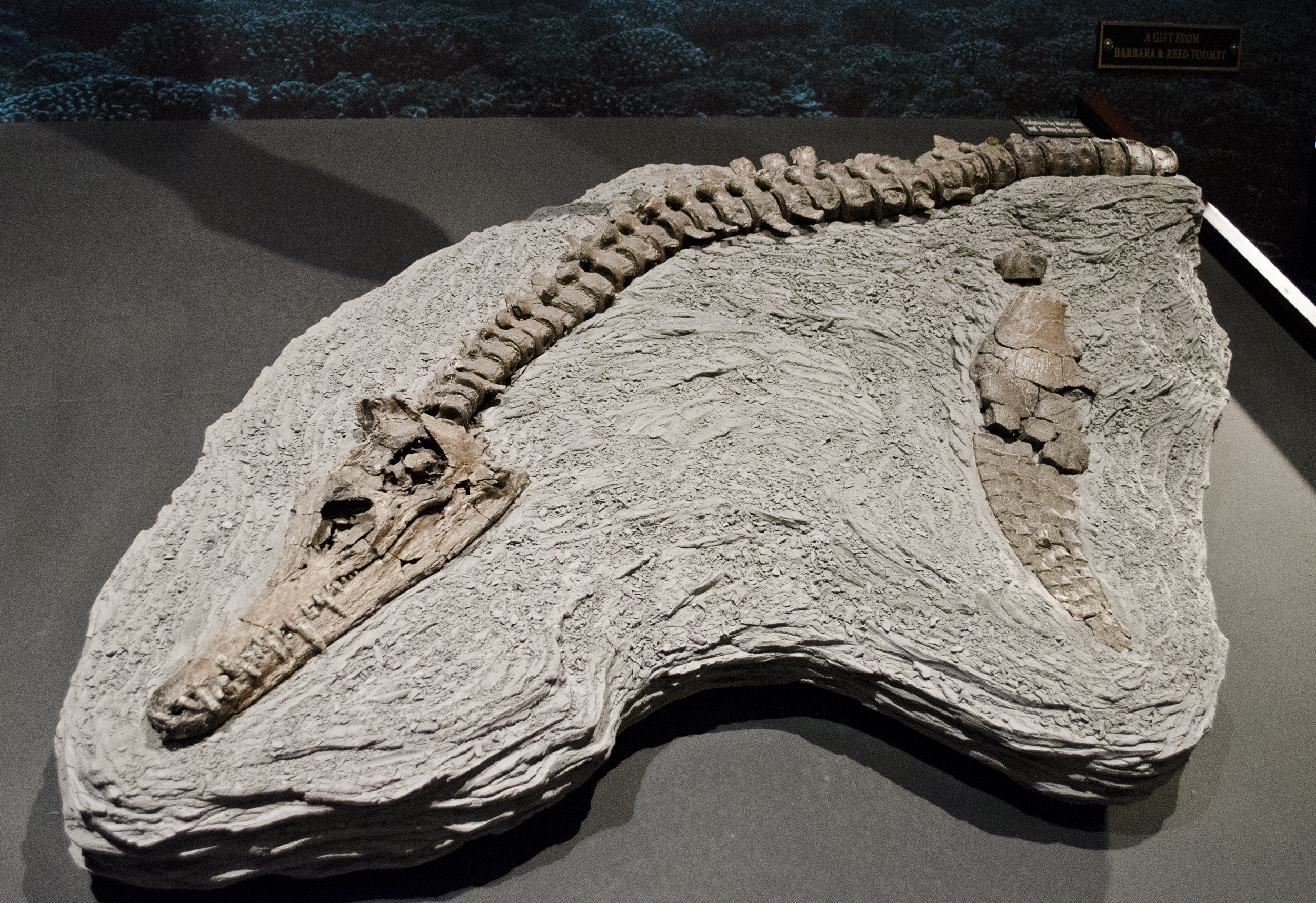 Holotype of the polycotylid[1] plesiosaur Edgarosaurus muddi DRUCKENMILLER, 2002, (MOR 751) comprising the skull, the neck, and the left front flipper, on display in the Museum of the Rockies in Bozeman, Montana. The specimen was collected in Edgar, Carbon County, Montana, from the Shell Creek member of the Thermopolis Shale Formation, Upper Albian, uppermost Lower Cretaceous.[2]